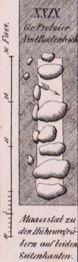 Megalithic tomb near Kahlstorf, Sprockhoff-No. 804